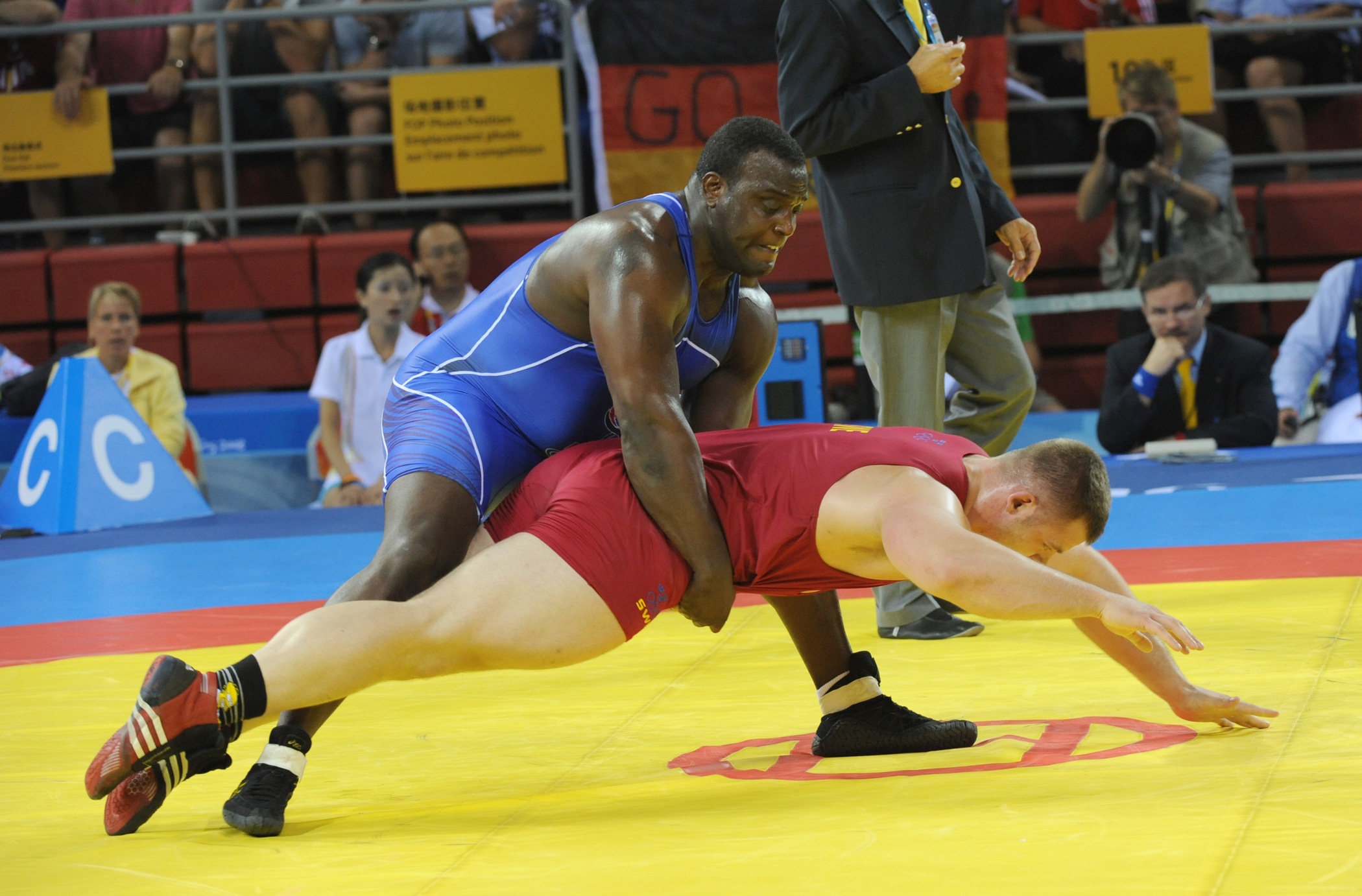 U.S. Army Staff Sgt. Dremiel Byers lifts Sweden's Jalmar Sjoberg during a quarterfinal match of the 2008 Olympic Greco-Roman 120-kilogram tournament August 14, 2008, in Beijing, China.